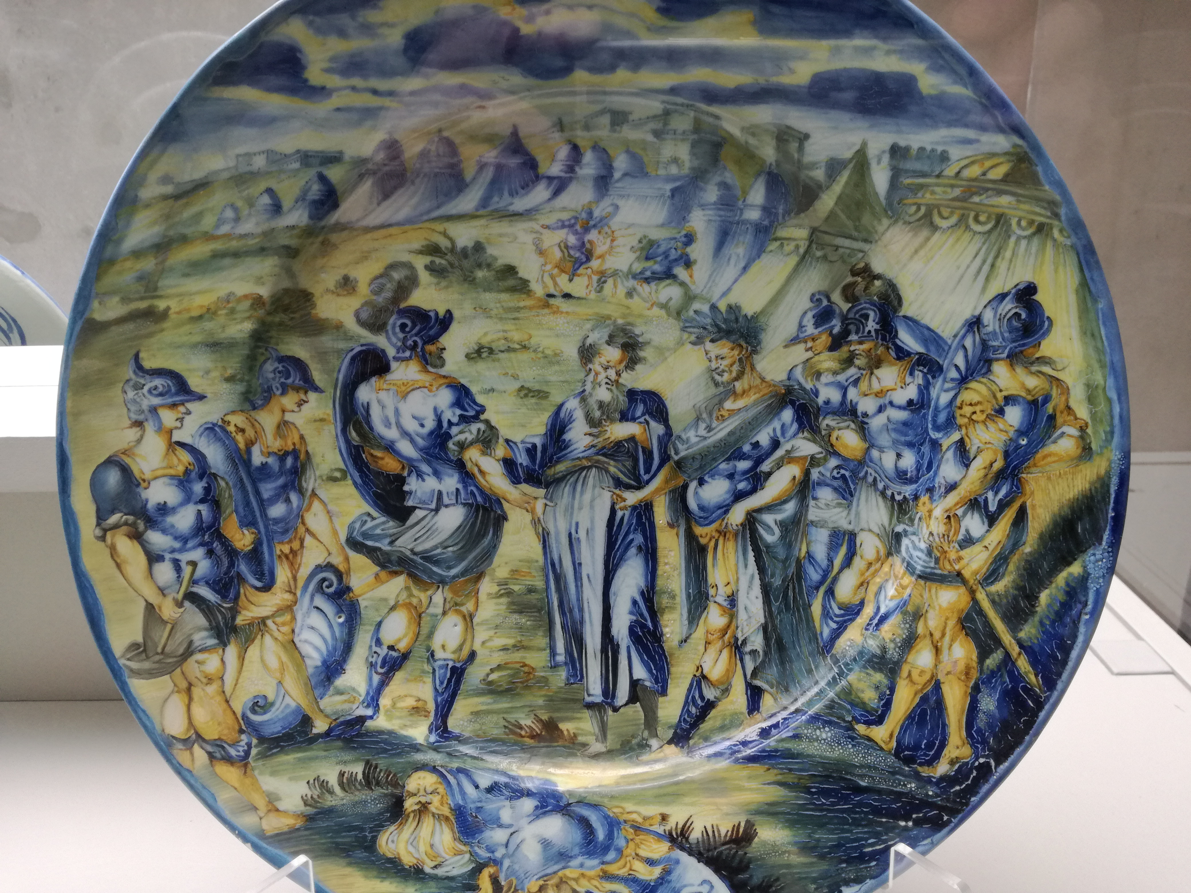 Ceramics in the Savona Ceramics Museum